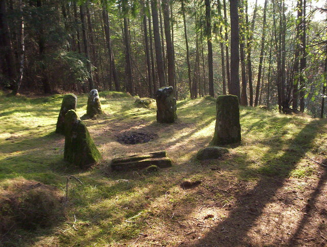 Stone Circle in Glassel Dam Wood This beautiful little circle is not easy to find being in the middle of a wood.